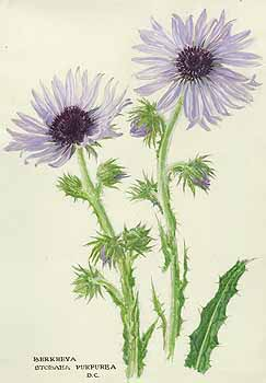 Berkheya purpurea (DC.) Benth. & Hook.f. ex Mast. - 'Illustrations of Southern Africa flora', Compton Herbarium, Cape Town (NBG)